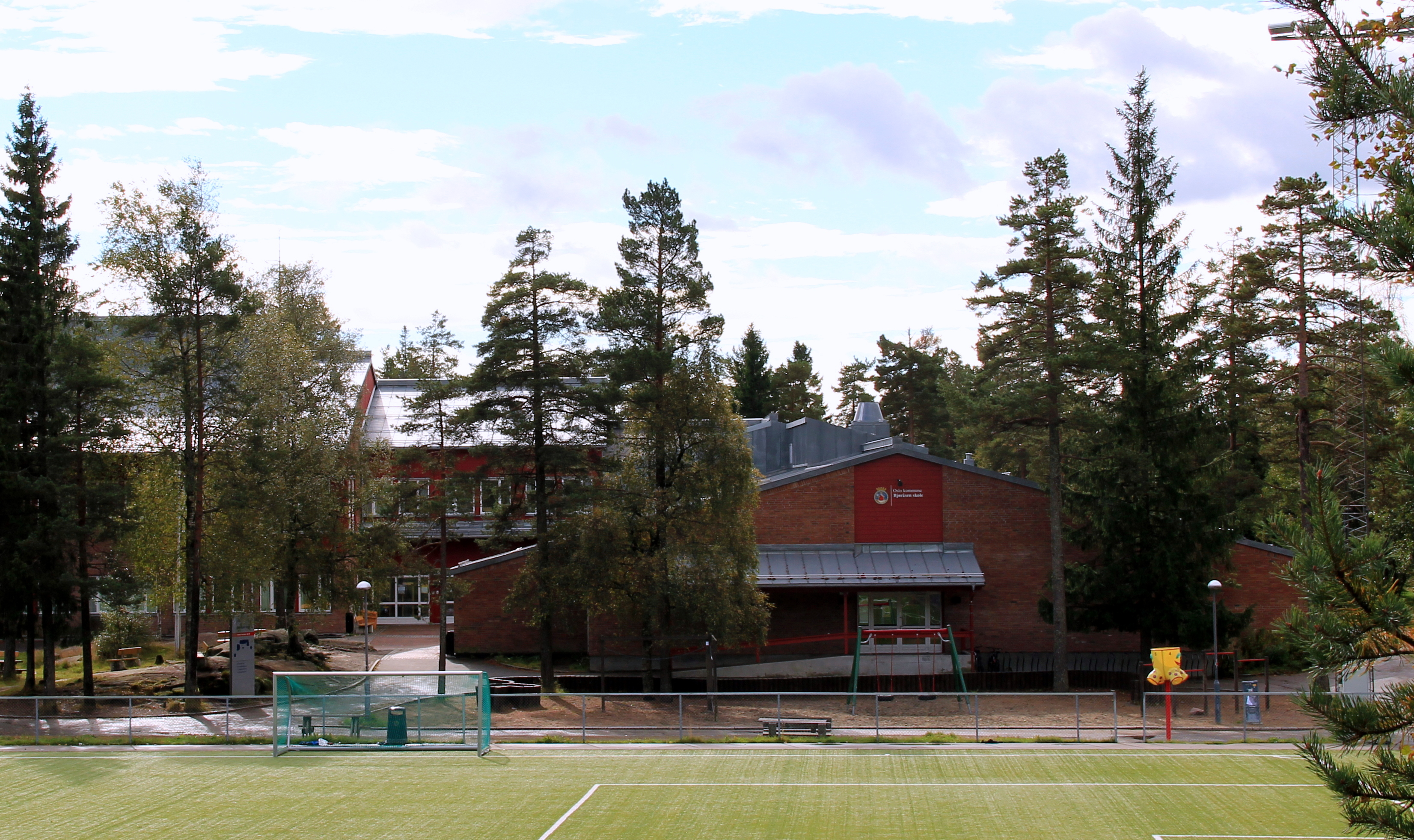 Bjøråsen skole in Romsås, Oslo